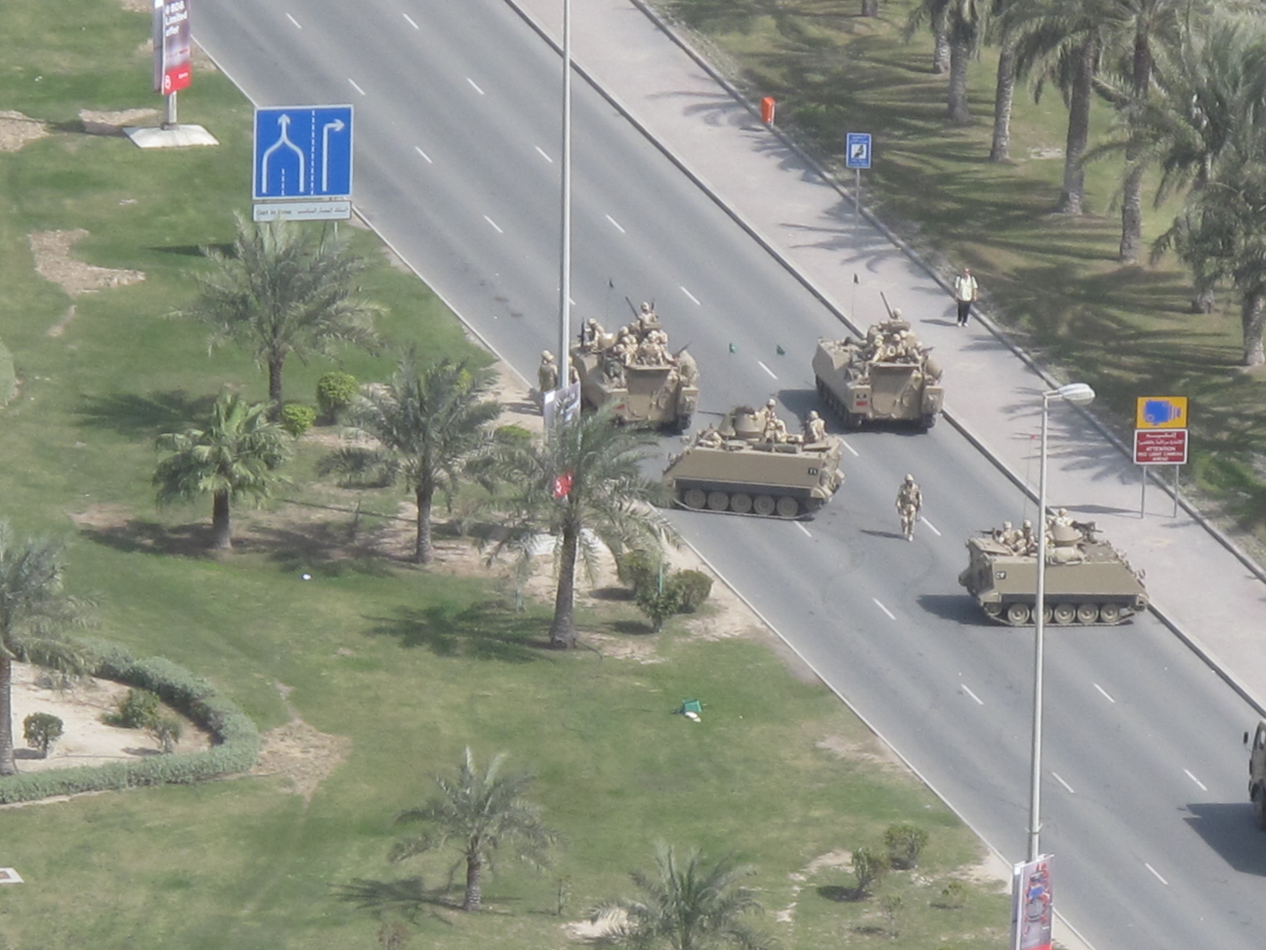 Army tanks blocking the road to Pearl roundabout